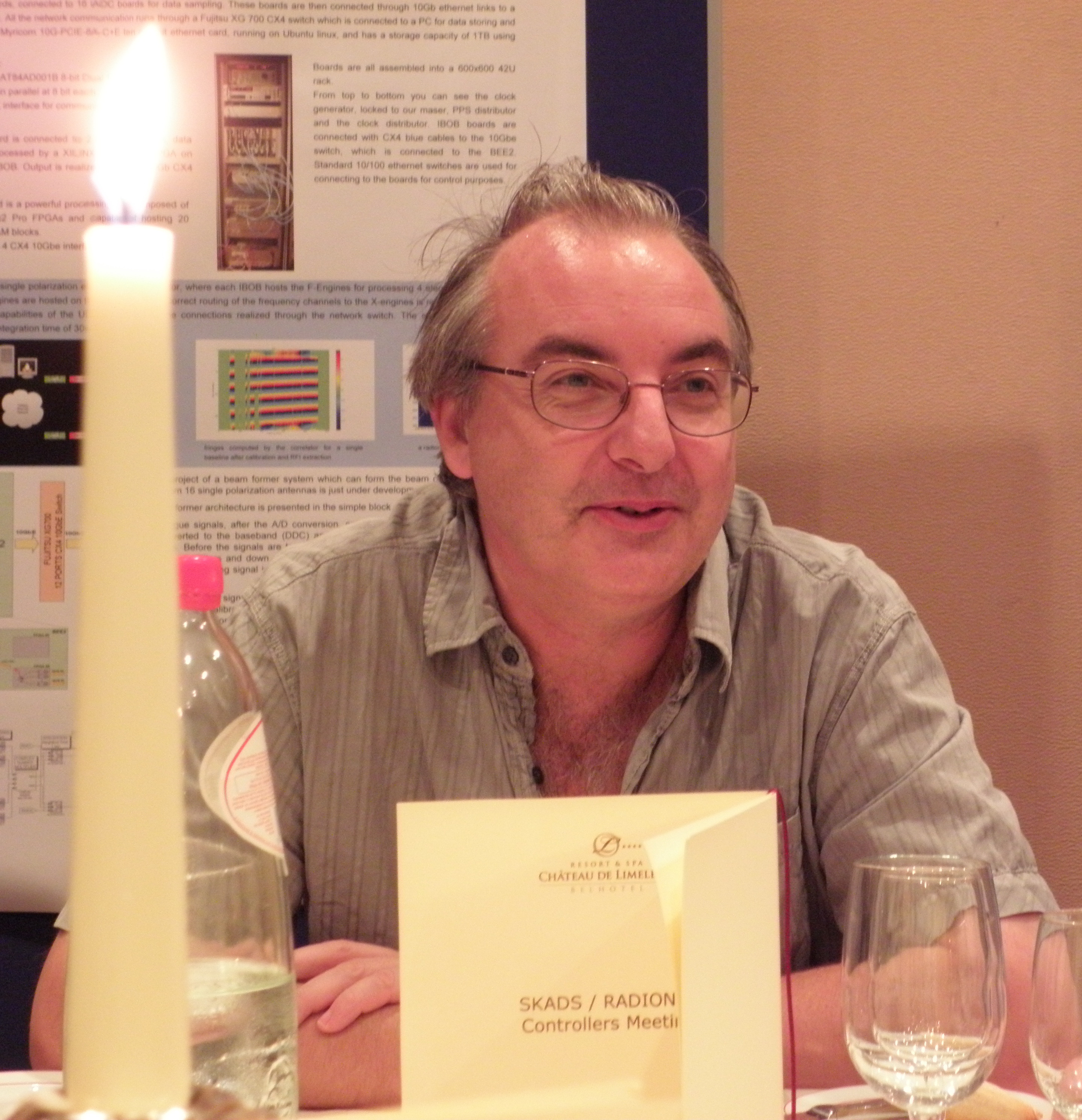 Steve Rawlings, astrophysicist, at the Square Kilometre Array Design Studies conference in Limelette, Belgium, 4 November 2009